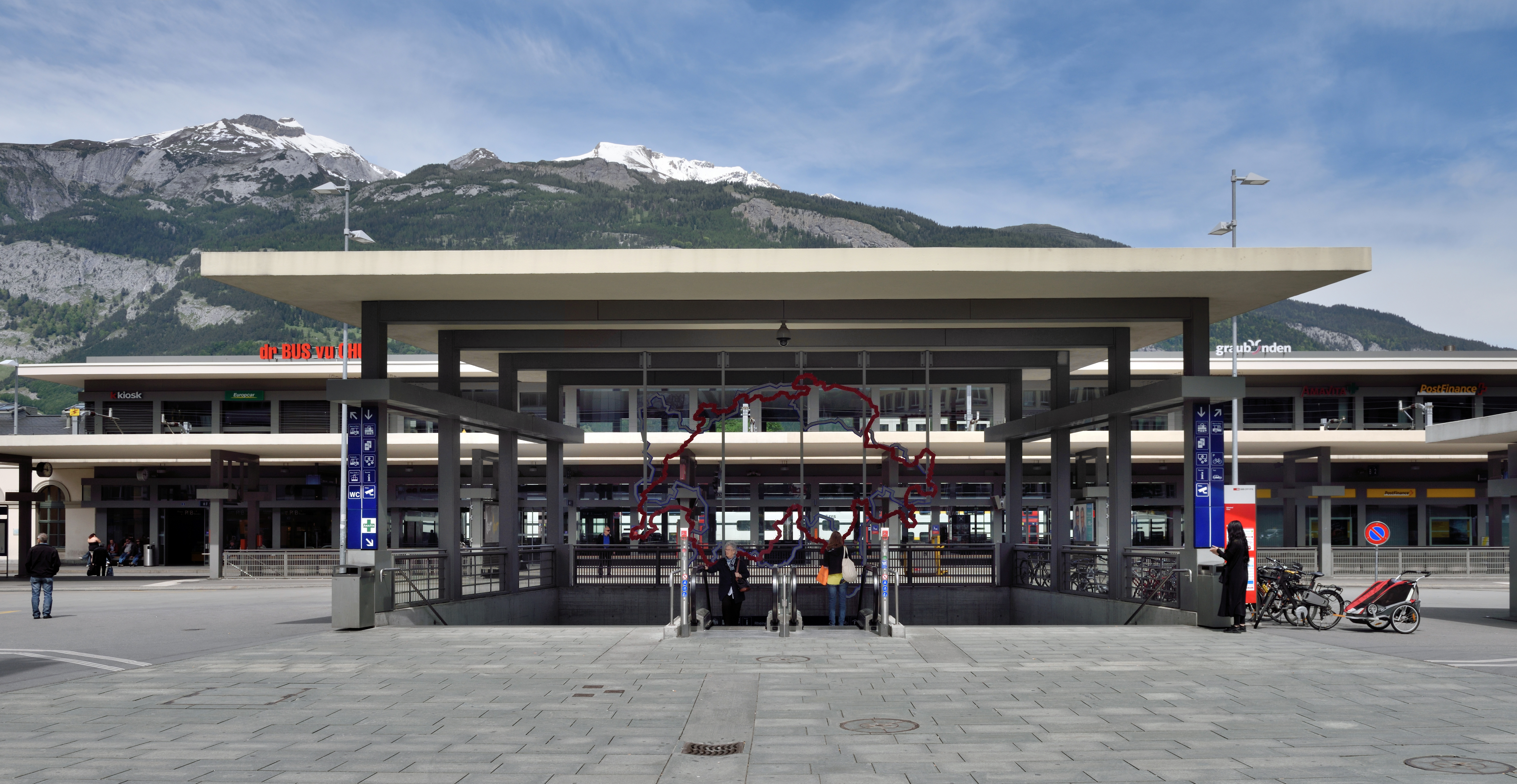 Entrance to the railway station in Chur, Switzerland.